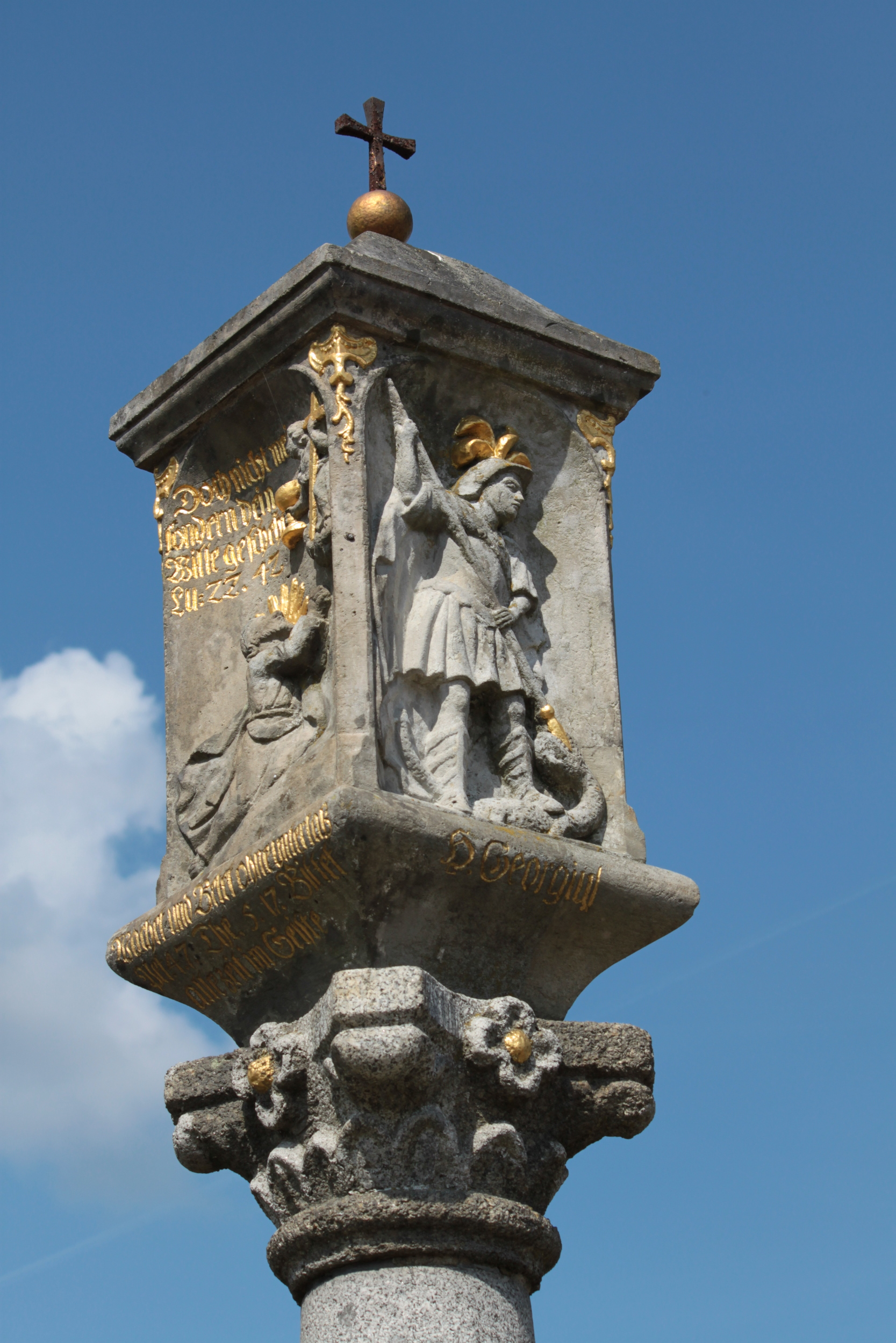 Wayside shrine from 1790 east of Zerna/Sernjany, municipality of Ralbitz-Rosenthal, Bautzen district, Saxony. Detail.